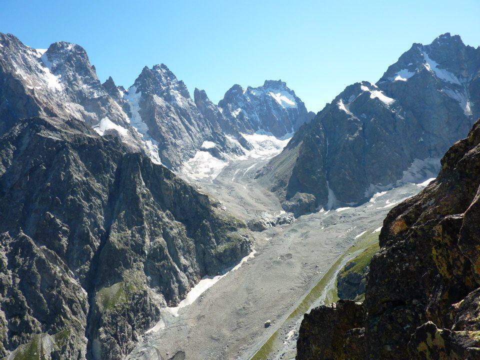 Glacier Noir - Mont Pelvoux, Pic Sans Nom, Ailefroide